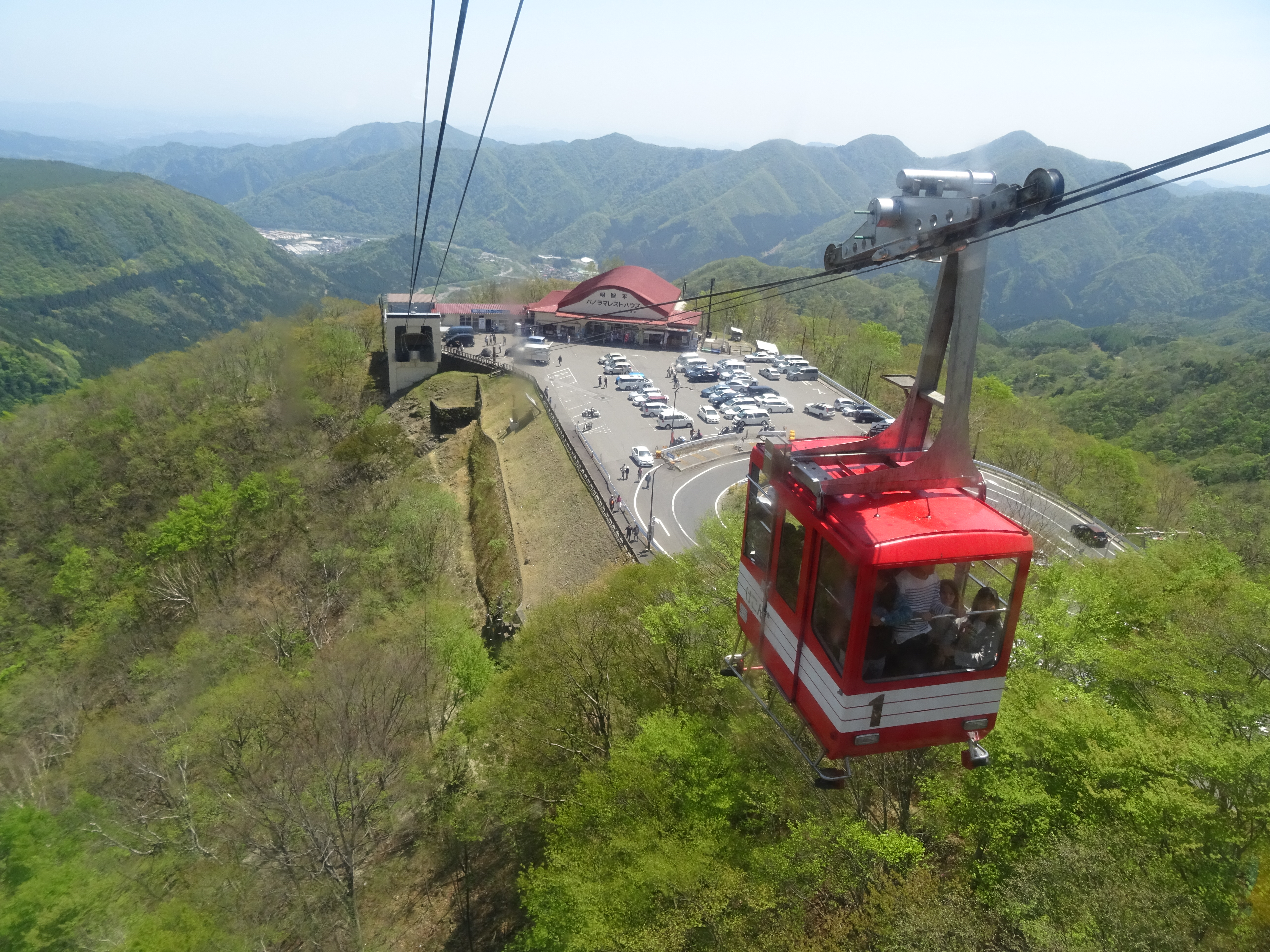 Akechidaira ropeway area, in Nikkō (Tochigi prefecture).